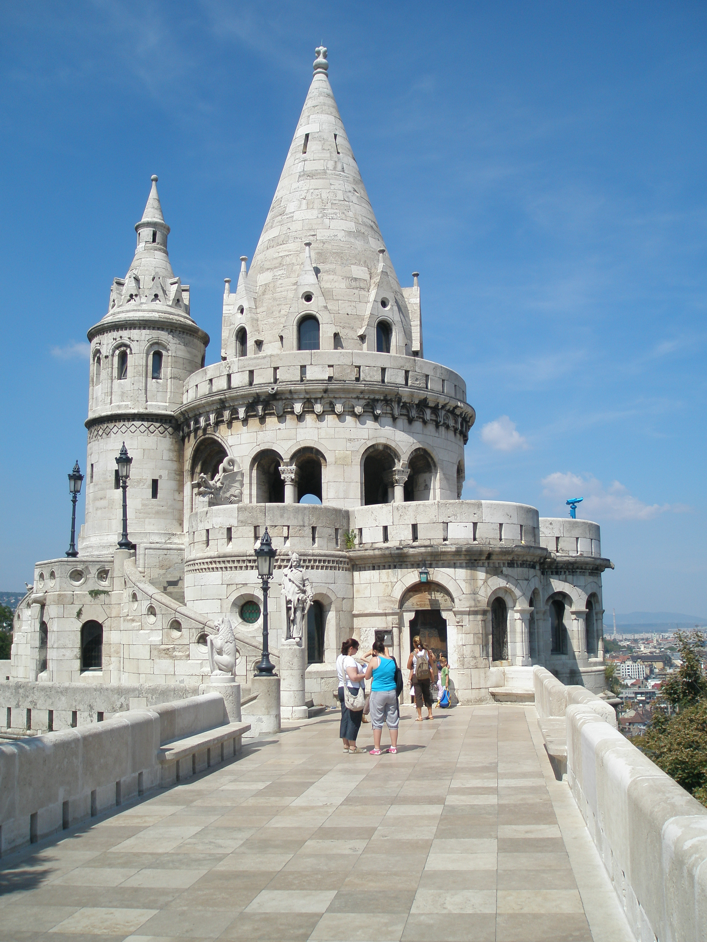 Fisher Bastion in Budapest